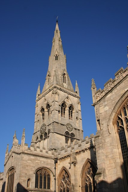 West tower of St Mary Magdalene parish church, Newark, Nottinghamshire